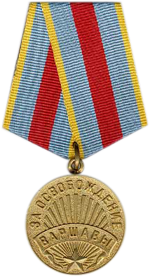 Soviet Medal For the Liberation of Warsaw